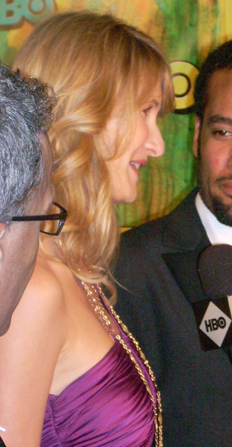 HBO Post-Emmys Party, Pacific Design Center, Sept. 21, 2008